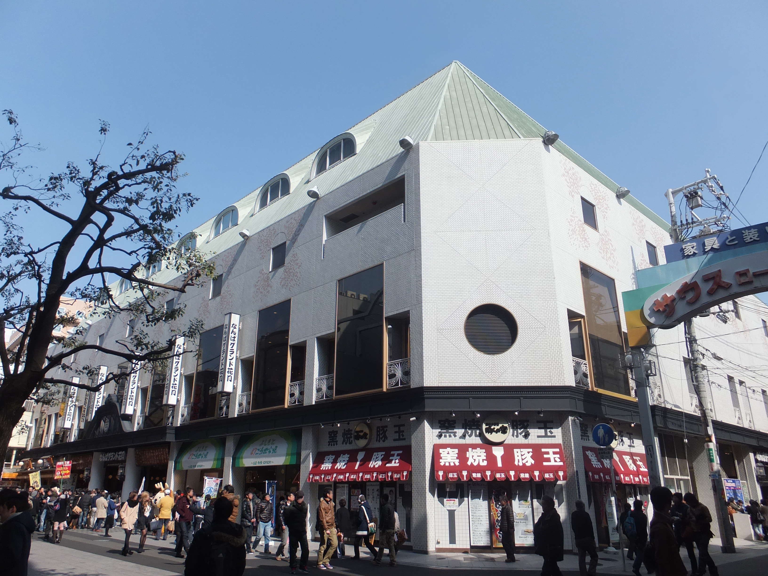 Namba Grand Kagetsu (なんばグランド花月), located at 11-6, Ebisuhigashi, Namba, Chuo, Osaka, Osaka, Japan